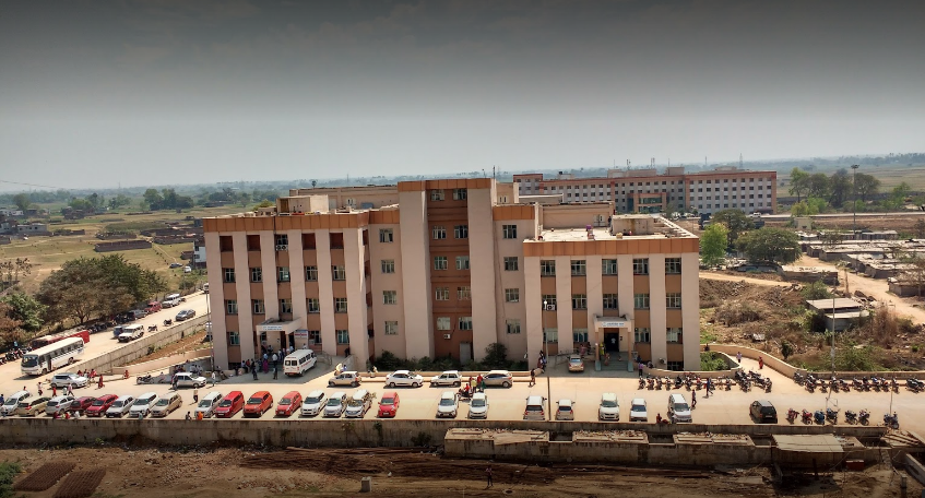 AiimsPatnaAyush